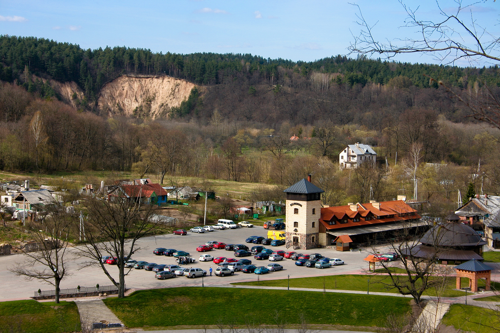 Belmontas' mill and Pūčkoriai scarf